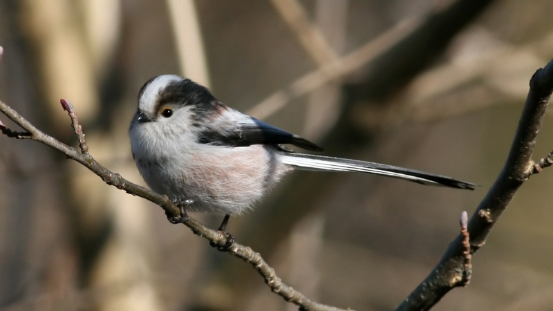 Long-tailed Tit (Aegithalos caudatus), Rheinspitz, Vorarlberg, Austria